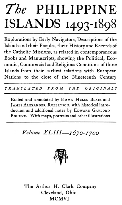 Facsimile of title page of "The Philippine Islands, 1493-1898" Vol 43 of 55